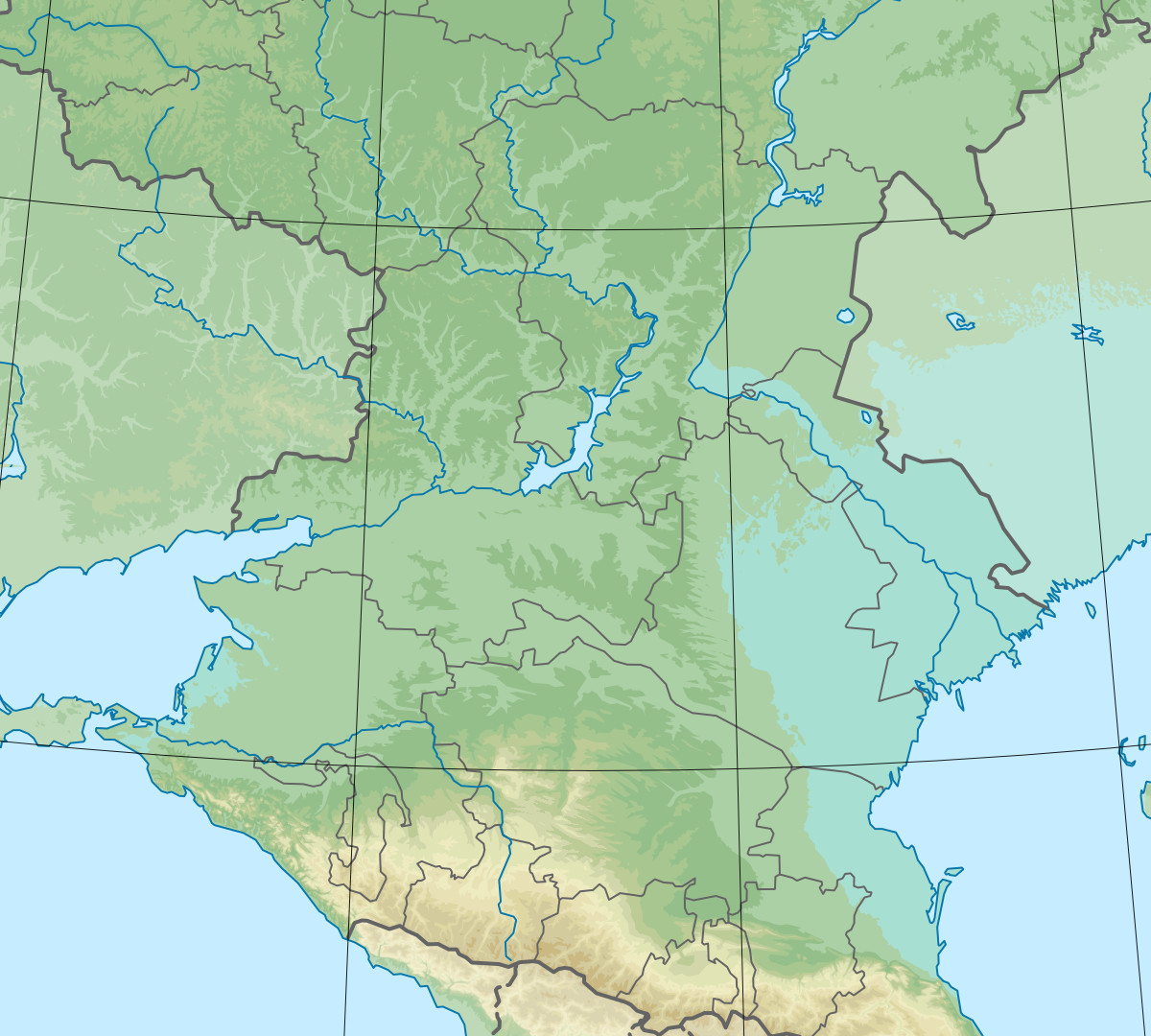 Physical map of the Southern Federal District in Russia.